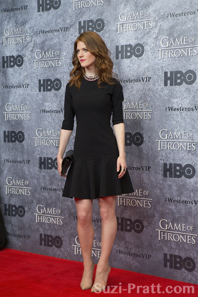 Photos by